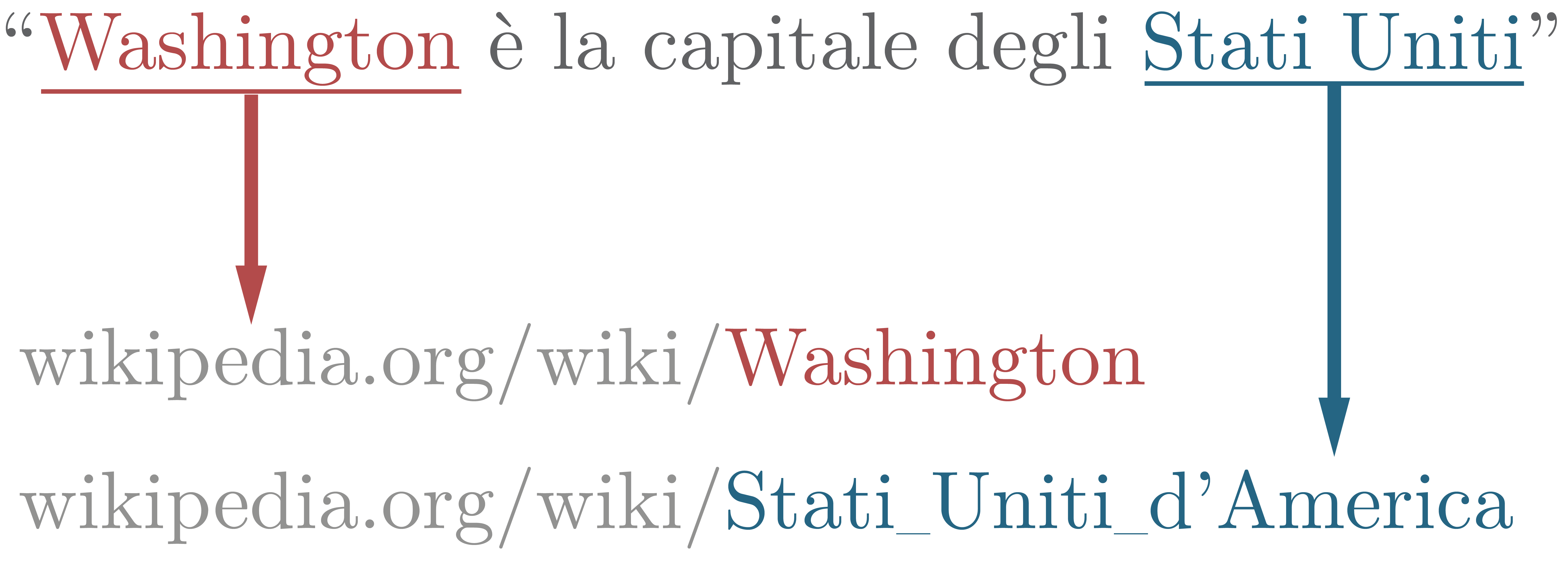 In Entity Linking, each Named Entity is linked to a unique identifier. Often, this identifier corresponds to a Wikipedia page.